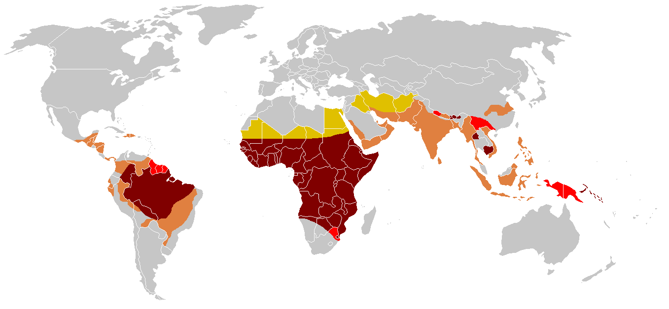 "Statistical risk of contamination to the P. Falciparum for a stay of less than a month. Frequency and origin of malaria cases. This map allows one to assess the risk "statistics" of malaria transmission in a geographic area. To get preventive treatment one should consult the areas or groups of malaria. Our advice for prevention is based on recommendations published by the BEH classifying countries into groups."